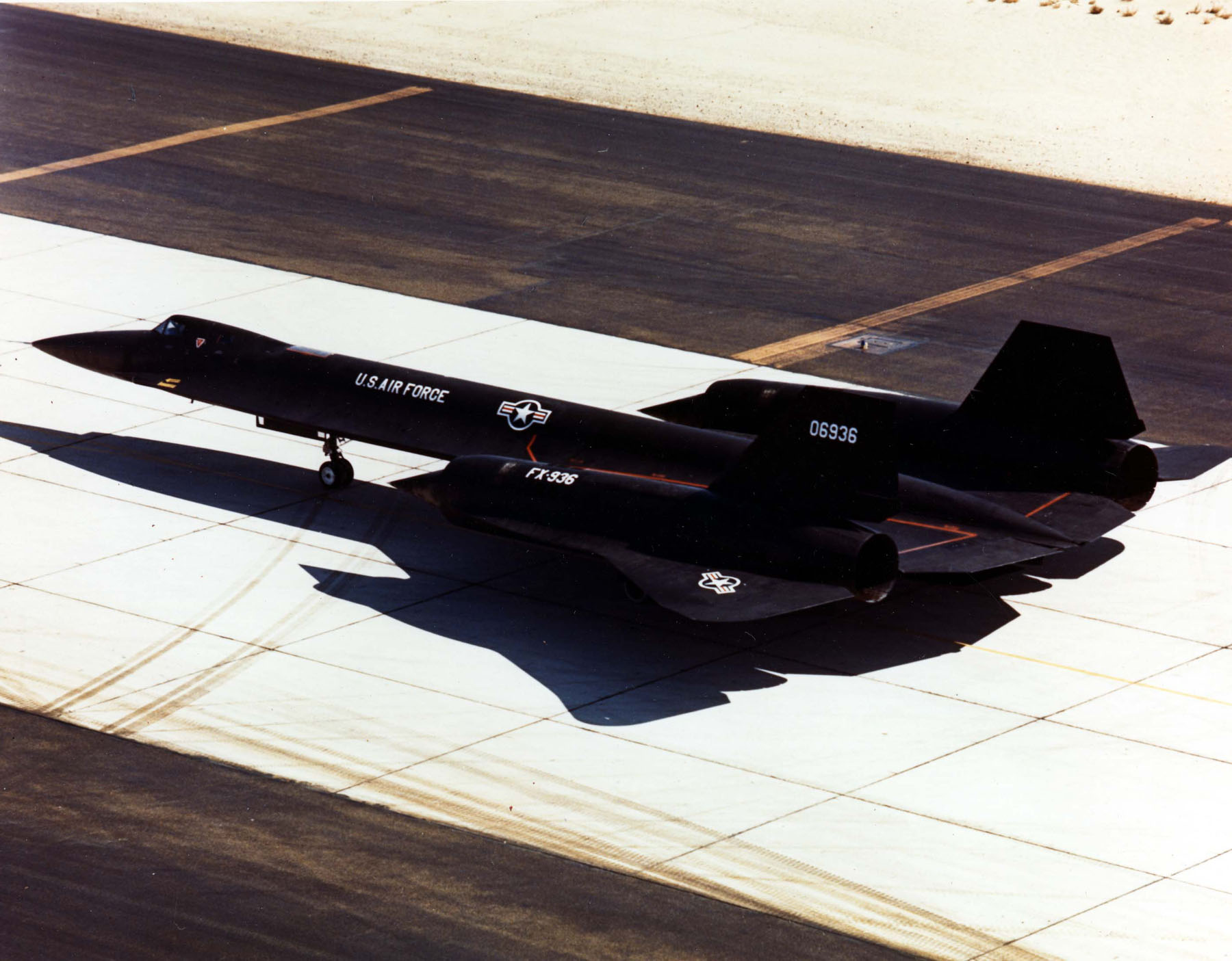 Lockheed YF-12 (S/N 60-6936) on the taxiway. (U.S. Air Force photo)